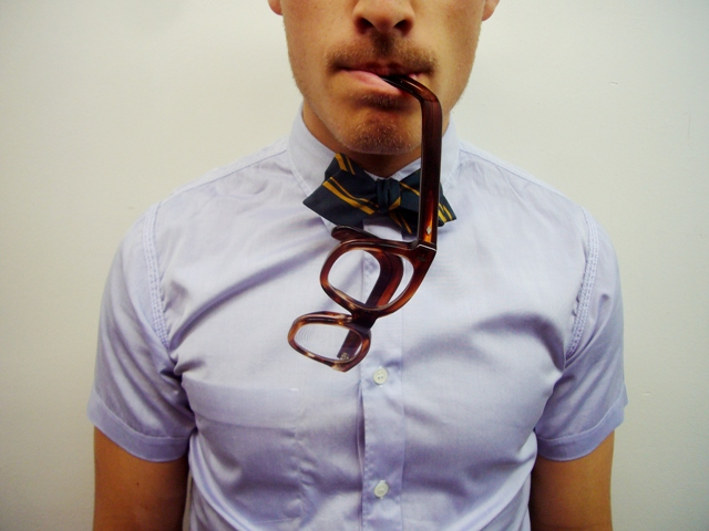 Sergei Sviatchenko. From the series Close Up And Private, 2011